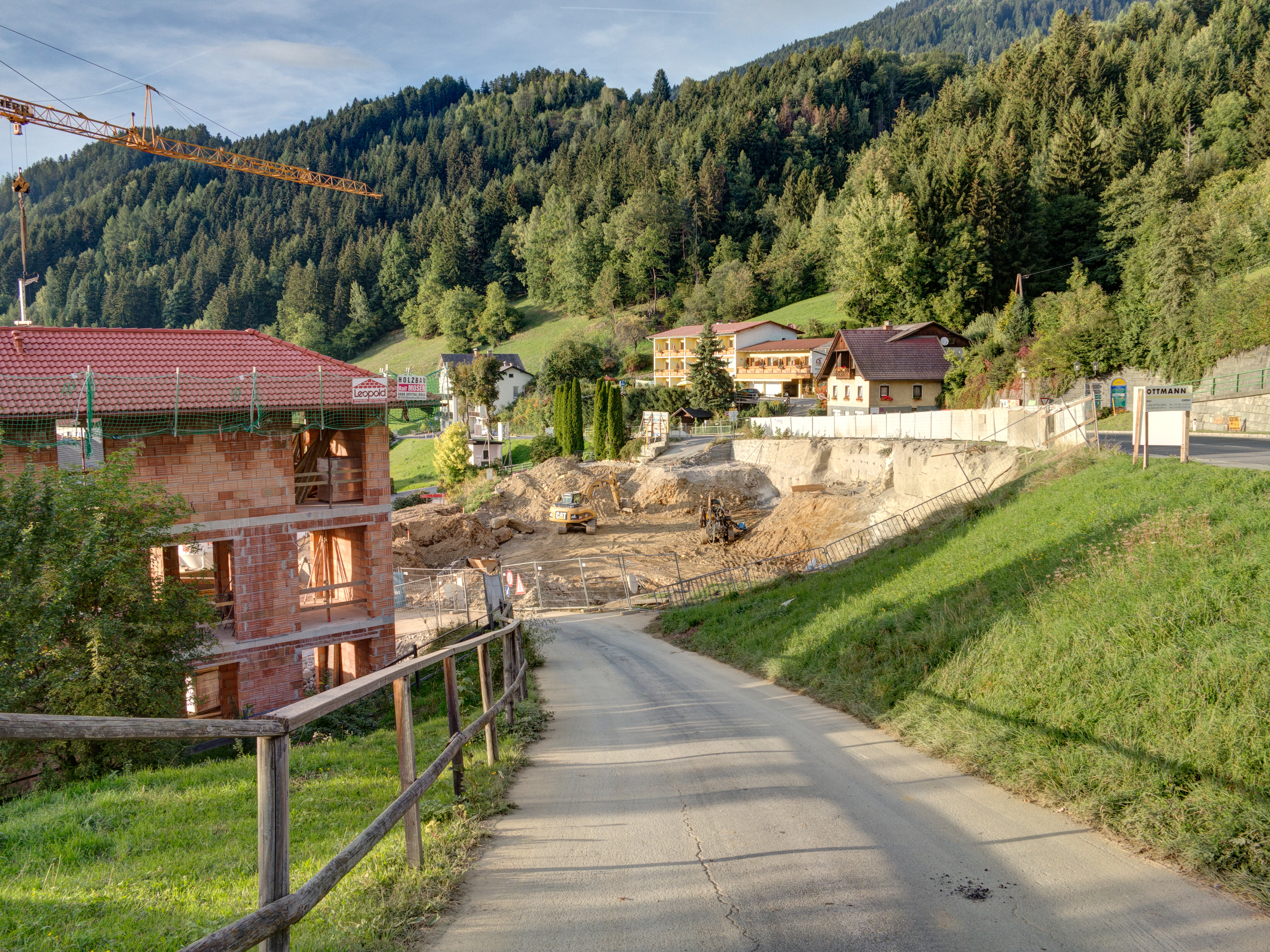 Construction of place where until 2013 the old inn "Gasthaus Brugger" stand. Right of the main road B98 near Lake Millstatt in Carinthia / Austria / EU.